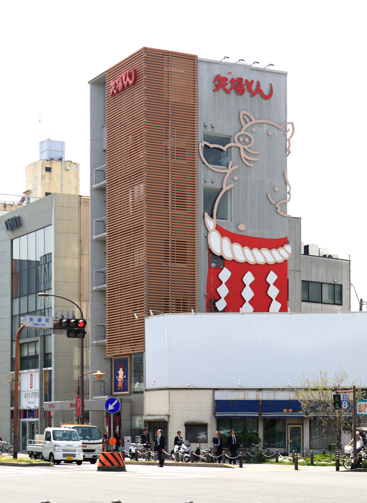 Yabaton headquauters in Nagoya.